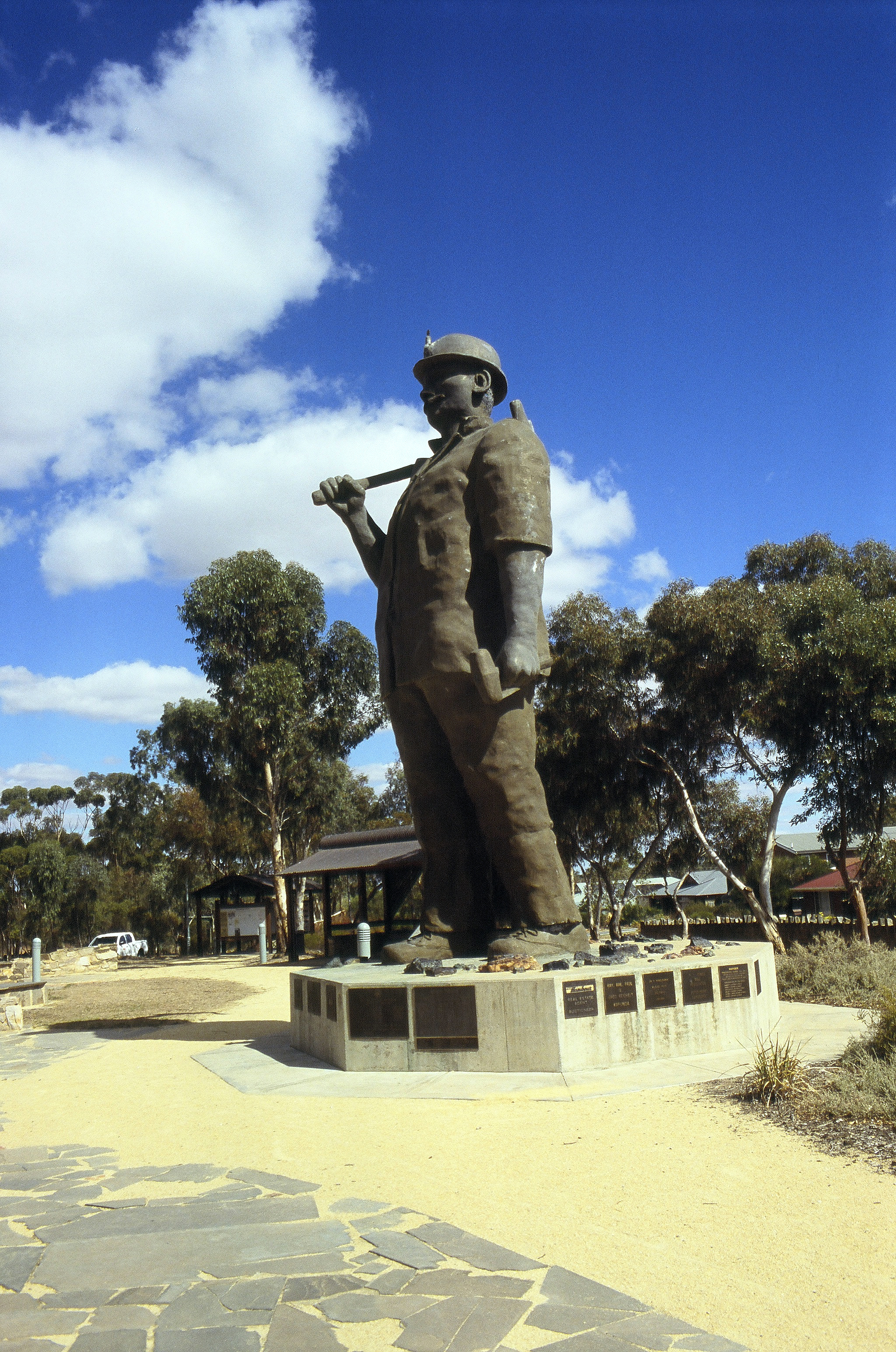 Map the Miner Mining monument in Kapunda, South Australia